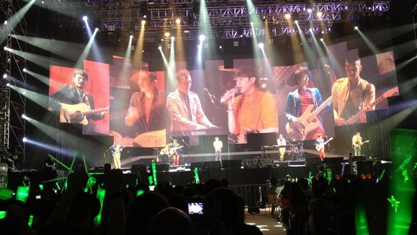 SodaGreen's 'Walk Together Concerts' in Amoy.